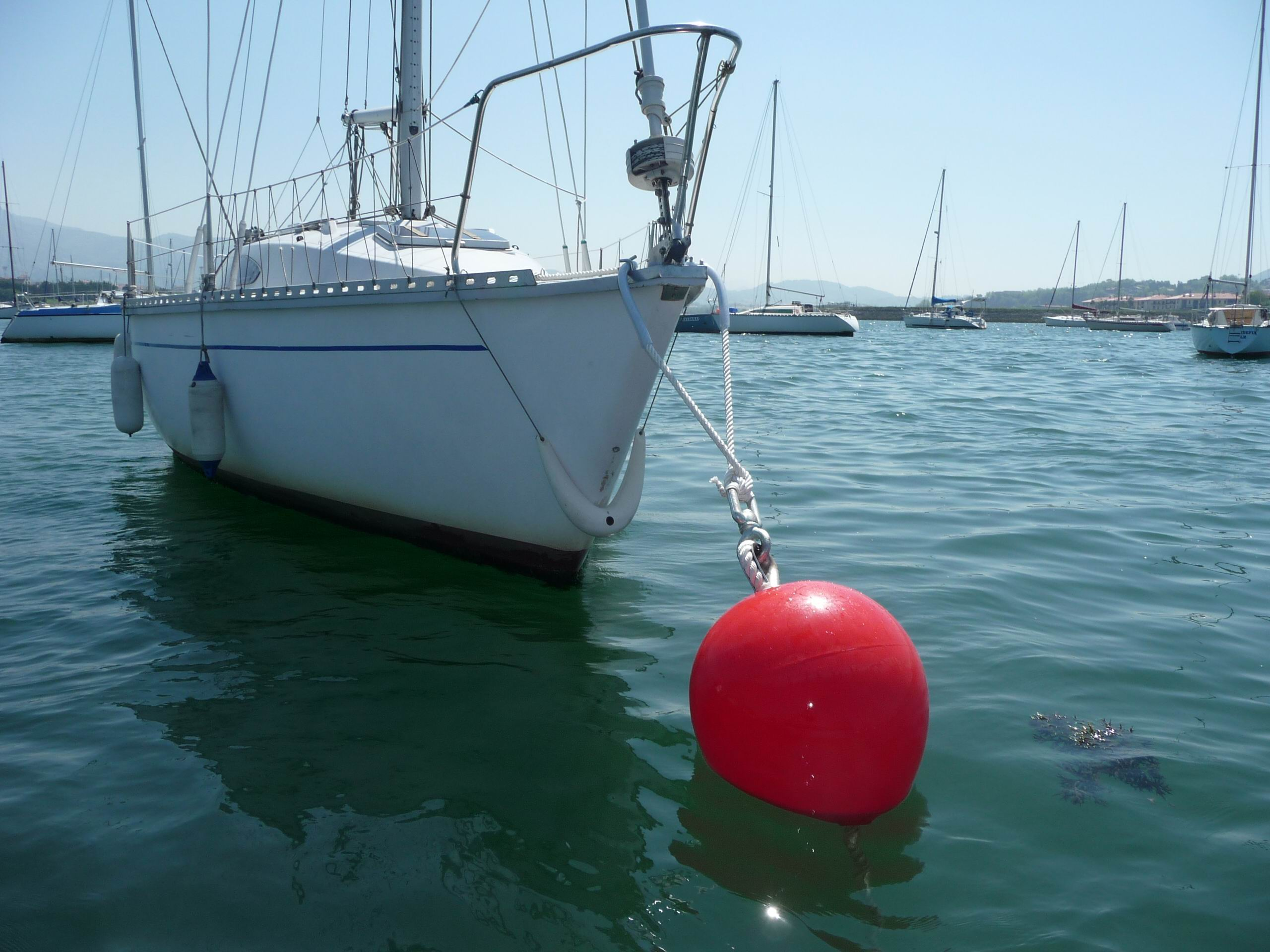 A yacht moored to a red mooring buoy.